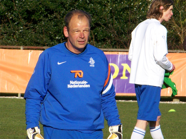 Jan Willem van Ede and Kees Luyckx in the background during a training of the Netherlands national under-21 football team in 2008